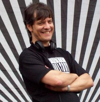 Mario Pergolini at "¿Cuál Es Rock? 2006" festival, December 5th 2006, at "Club Ciudad de Buenos Aires" (Buenos Aires, Argentina), closing the 2006 season of "¿Cuál Es?" radio show (FM Rock & Pop 95.9 MHz).